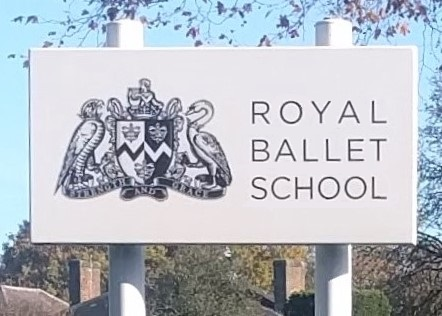 White Lodge, Richmond Park. Royal Ballet School sign showing school badge